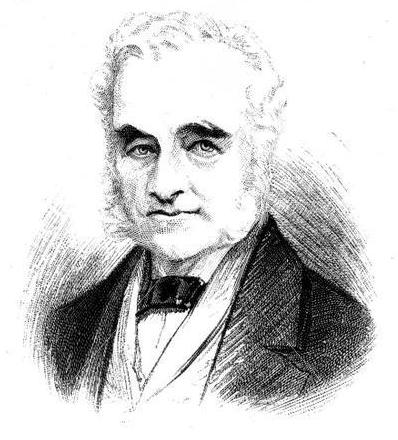 Lieutenant Colonel George Gawler, (1886). Gawler (1795-1869) was the second governor of South Australia, from 1838-1841. Wood engraving from 'Picturesque Atlas of Australasia, Vol II', by Andrew Garran, illustrated under the supervision of Frederic B Schell, (Picturesque Atlas Publishing Co, 1886).